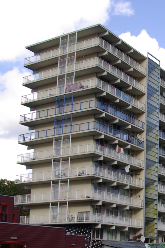 Bijlmerflat Hogevecht in Amsterdam Southeast